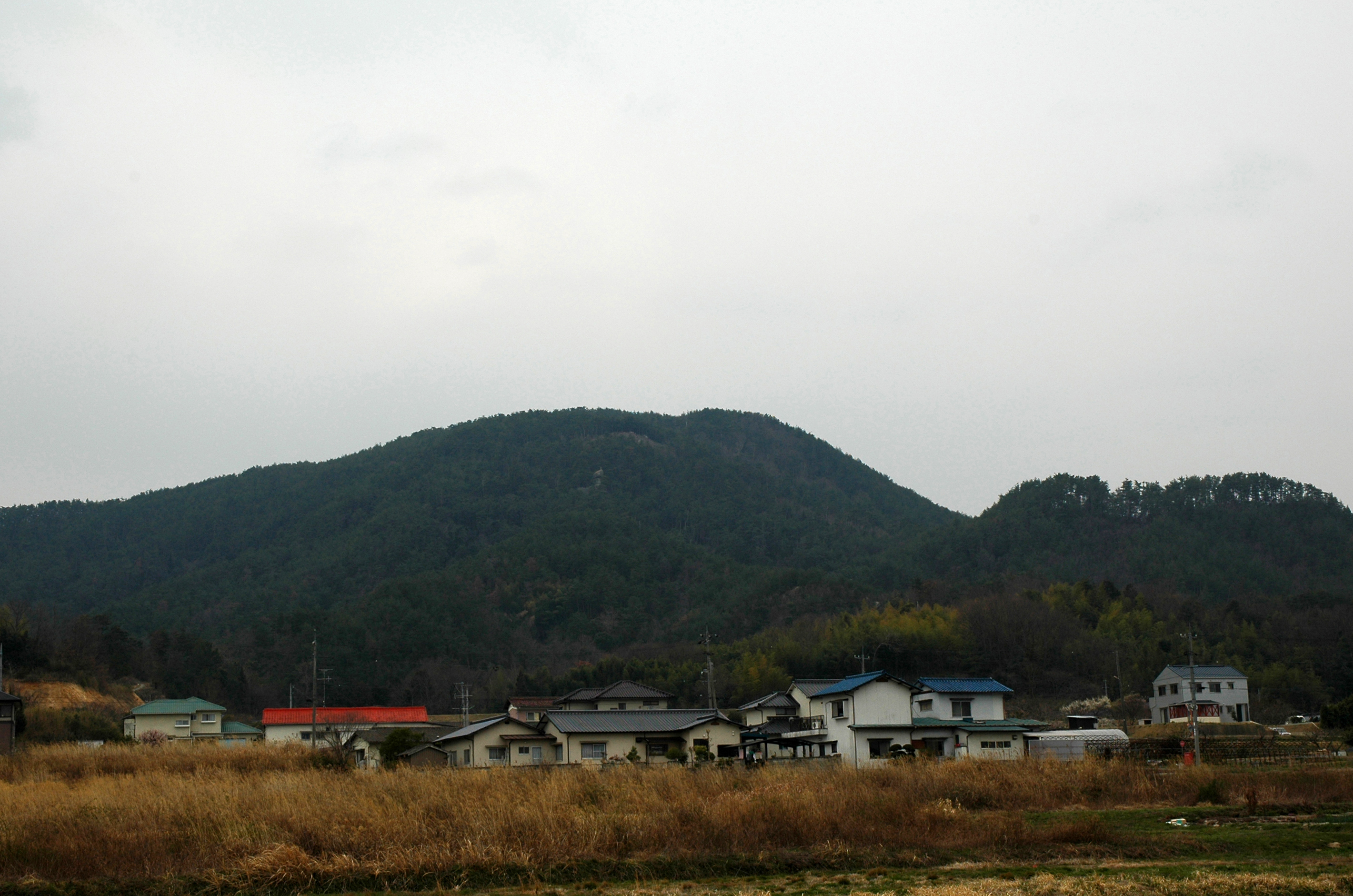 Bitchū Fukuyama Castle (Fukuyama-jō, designated as Japan's national historical site) in Kiyone-miyori, Soja City, Okayama, Japan. Remains of a castle built in Nanboku-chō period (14th century).